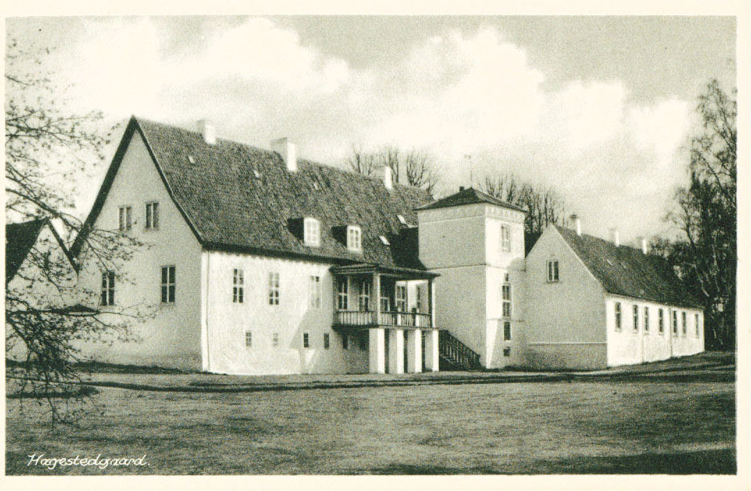 Hagestedgaard seen from the northwest with the remains of the tower from 1555 seen in the middle of the picture. Jolbæk, Denmark.